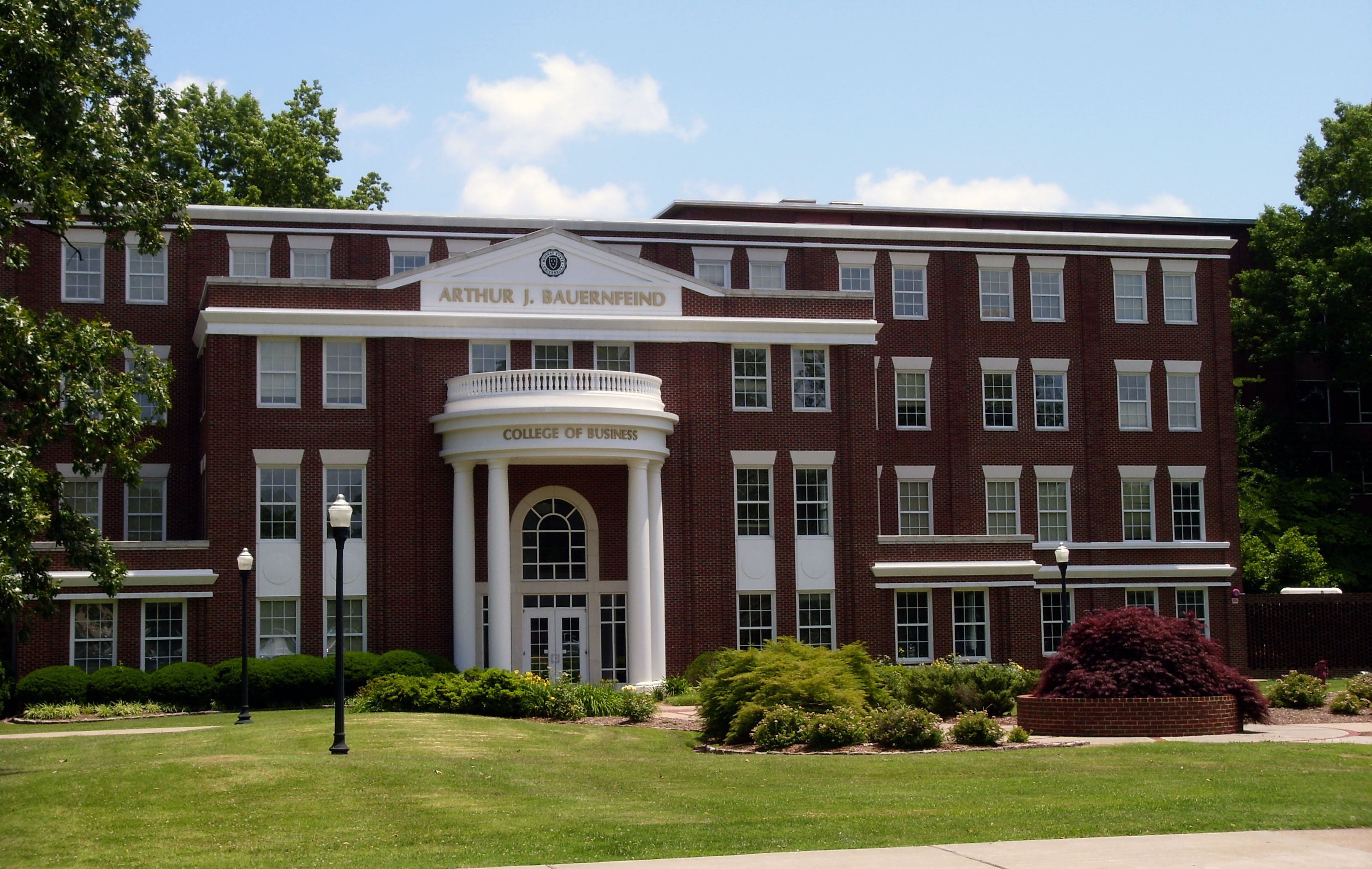 Arthur J. Bauernfeind College of Business at Murray State University